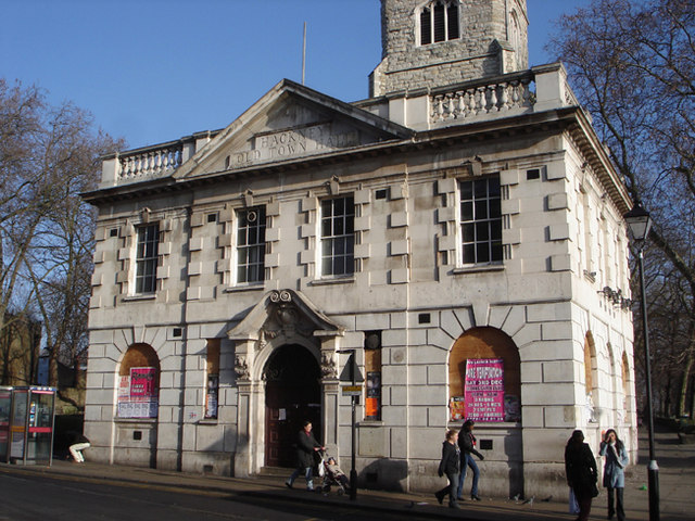 Hackney old town hall Hackney's old town hall, featured in a bank advert against bank closures (now closed)